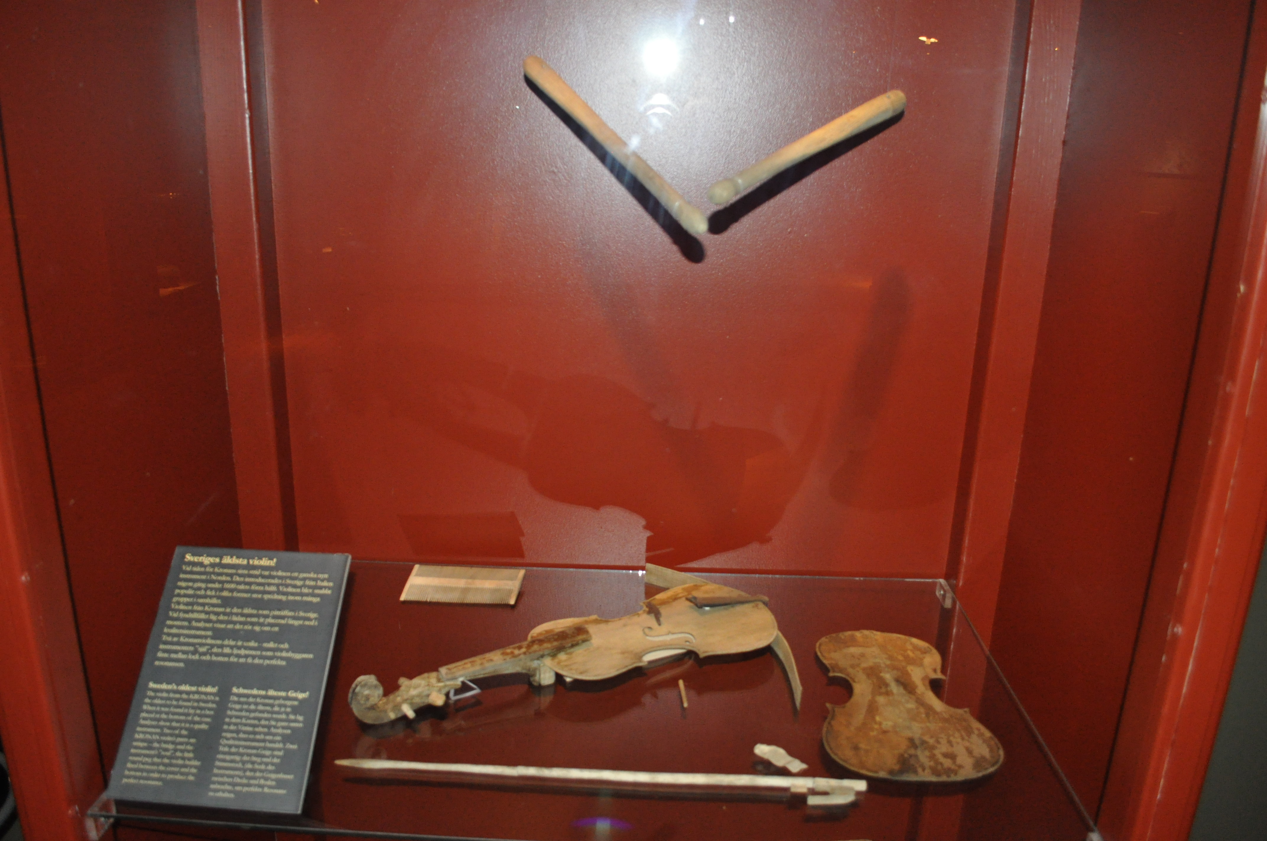 A violin of the Swedish ship of the line Kronan at Kalmar museum.